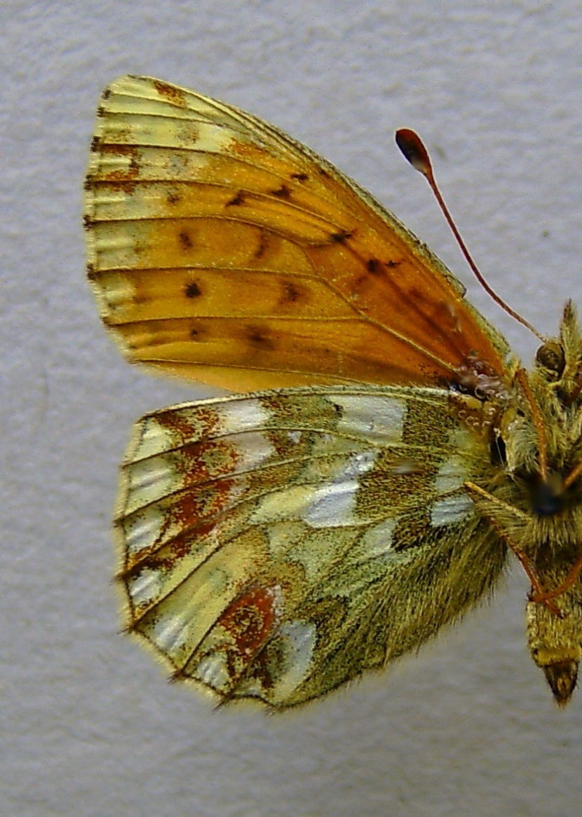 Boloria napaea